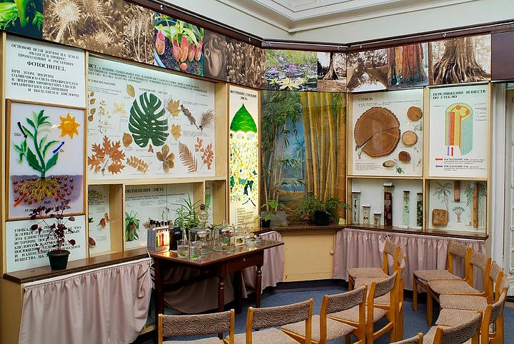 hall 8 of rusian state biological museum named after timiryazev